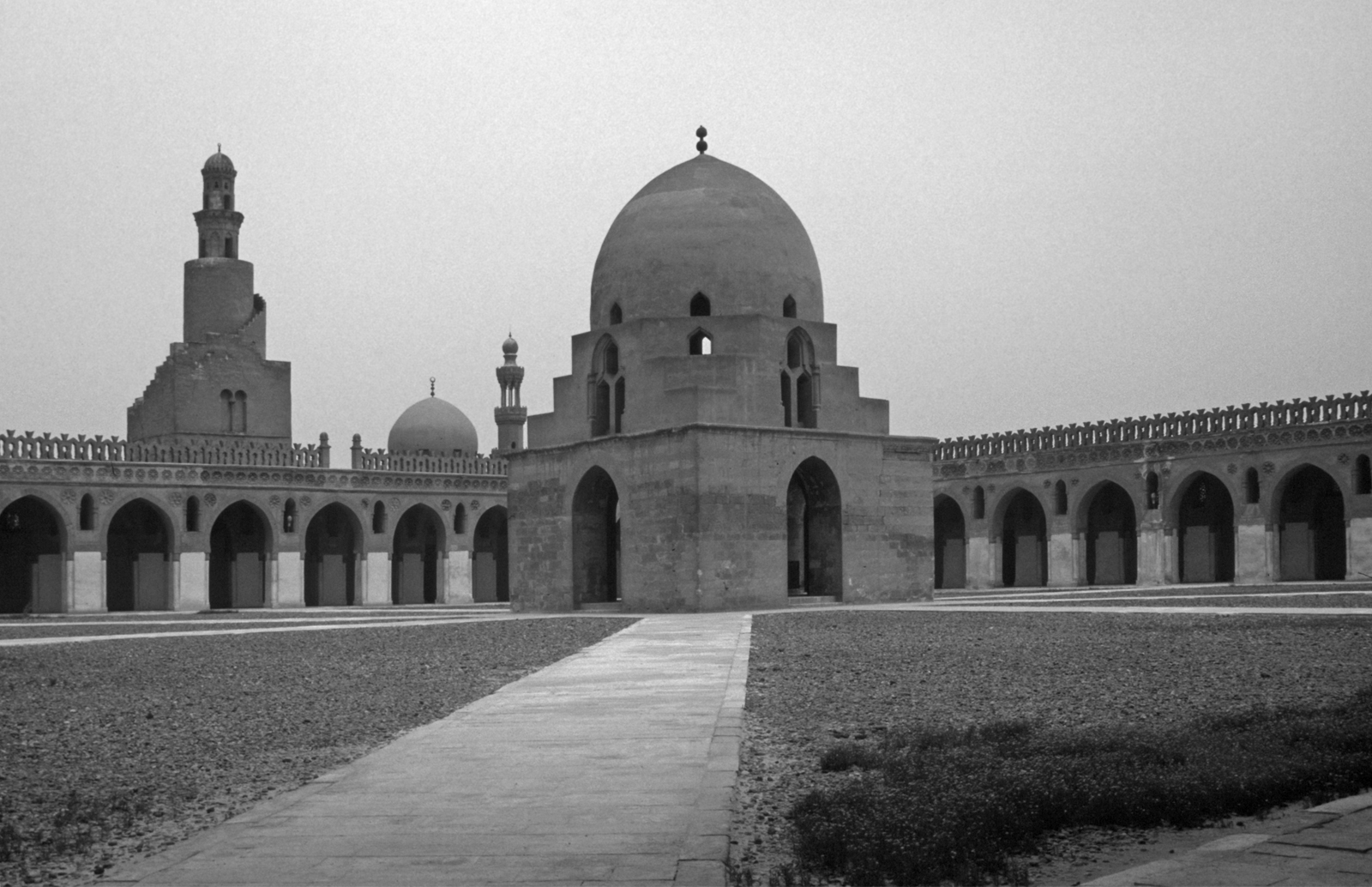 Cairo (Egypt): Mosque of Ibn Tulun